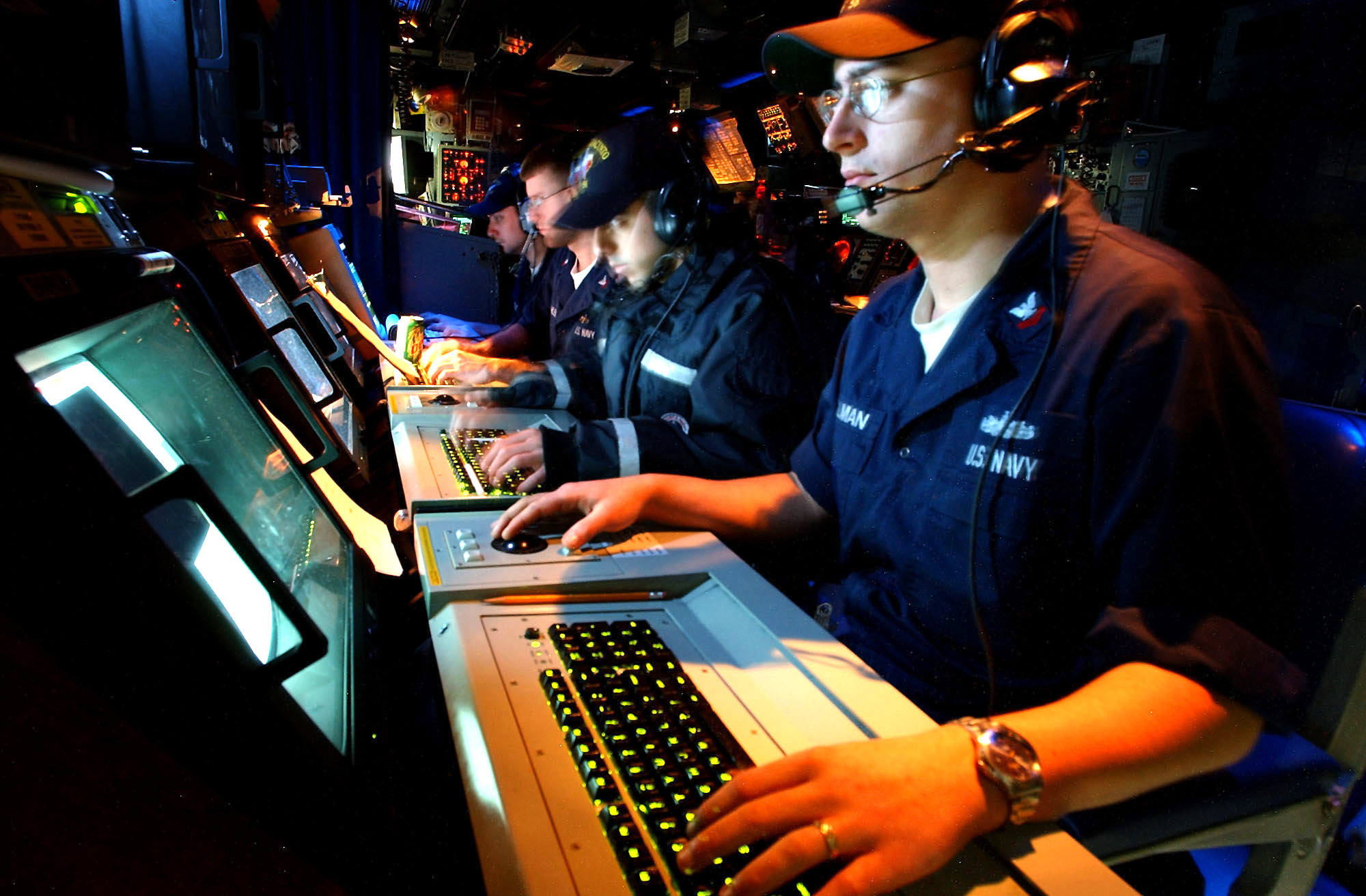 At sea aboard USS San Jacinto (CG 56) Mar. 5, 2003 -- Fire Controlman Joshua L. Tillman along with three other Fire Controlmen, man the ship’s launch control watch station in the Combat Information Center (CIC) aboard the guided missile cruiser during a Tomahawk Land Attack Missile (TLAM) training exercise. San Jacinto is deployed in support of Operation Enduring Freedom. U.S. Navy photo by Photographer's Mate 1st Class Michael W. Pendergrass. (RELEASED)